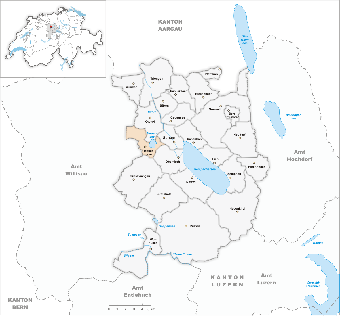 Municipality Mauensee